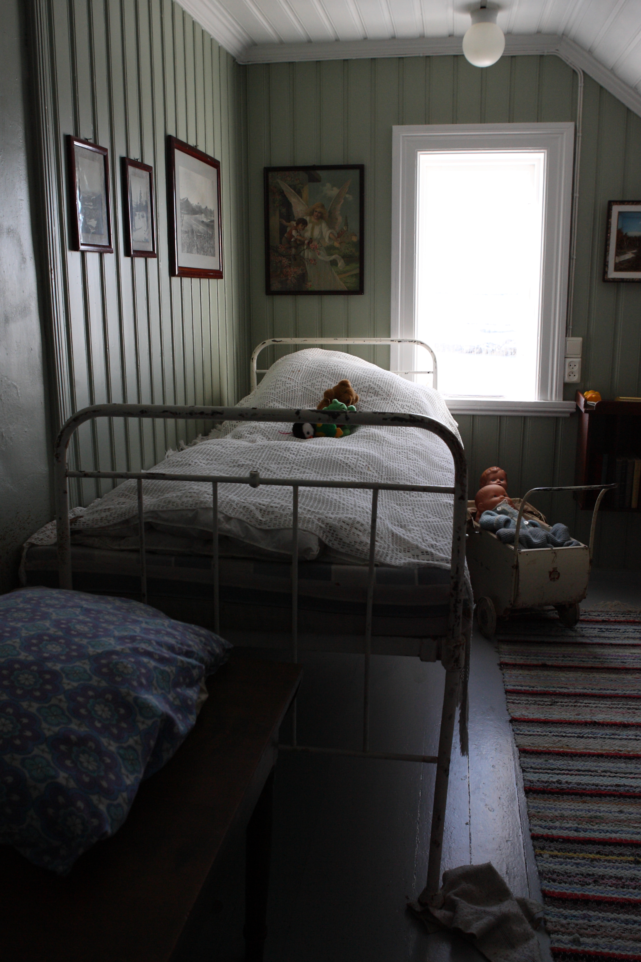 A childrens room in Brønnøysund lighthouse in Brønnøy, NorwayNorsk bokmål: Barnerom i Brønnøysund fyr på Østre Prestøya i Brønnøy, Nordland